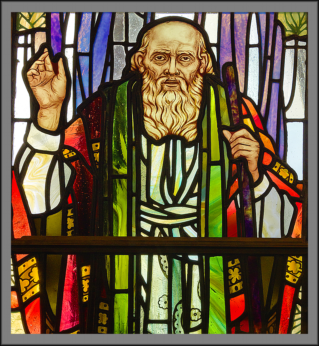 Stained glass window now displayed in Glasgow's St Mungo Museum of Religious Life and Art.